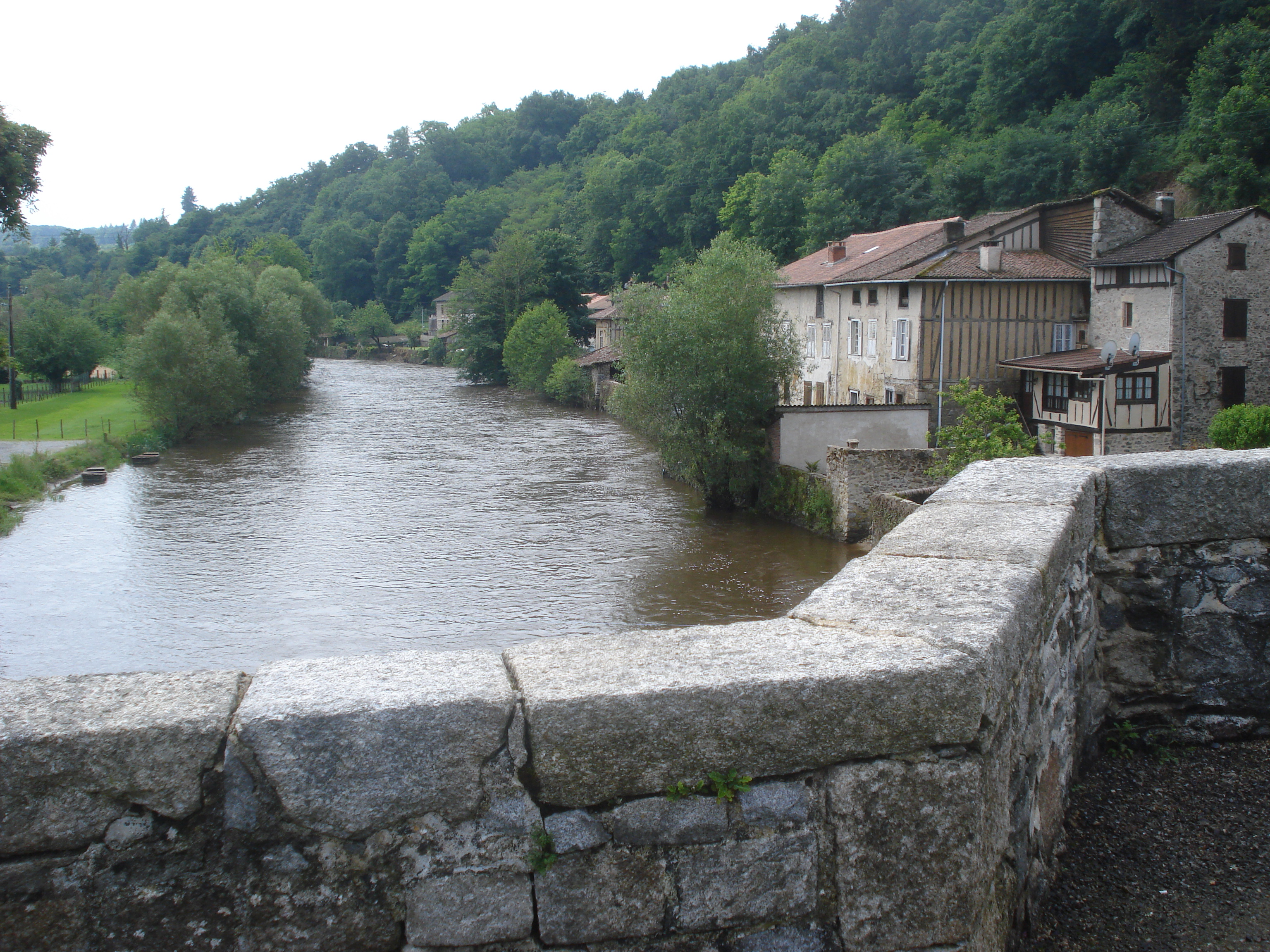 Vienne river at Pont-de-Noblat, municipality of Saint-Léonard-de-Noblat (Haute-Vienne, Fr). Old houses with timber framing.